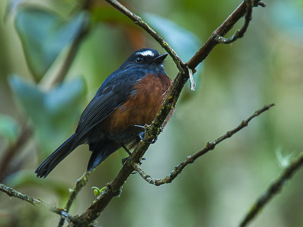 Slaty-backed Chat-Tyrant - South Ecuador_S4E2448